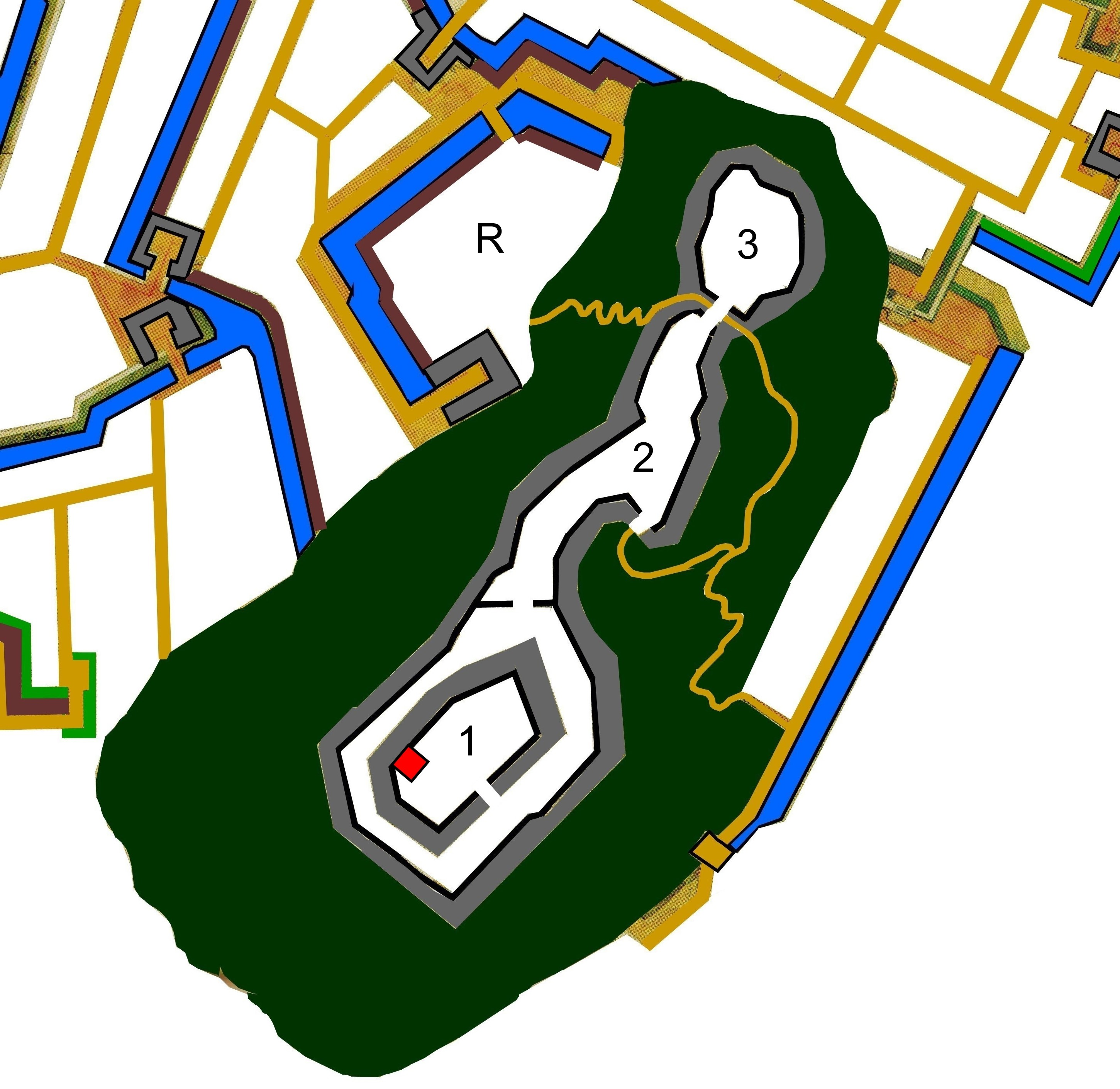 Layout of old Marakami castle